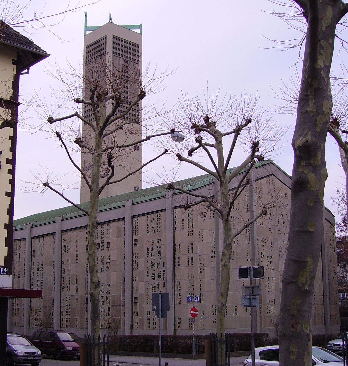 church of Mannheim, Germany